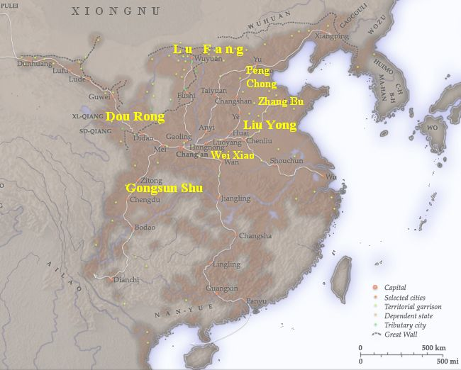 Map of Chinese warlords during Han Guangwu's regency.